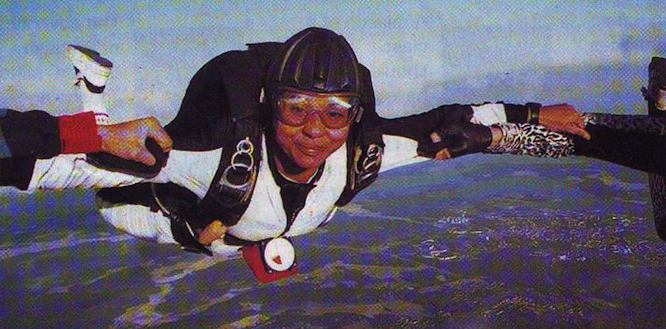 Rachel Thomas, Sweden 1988